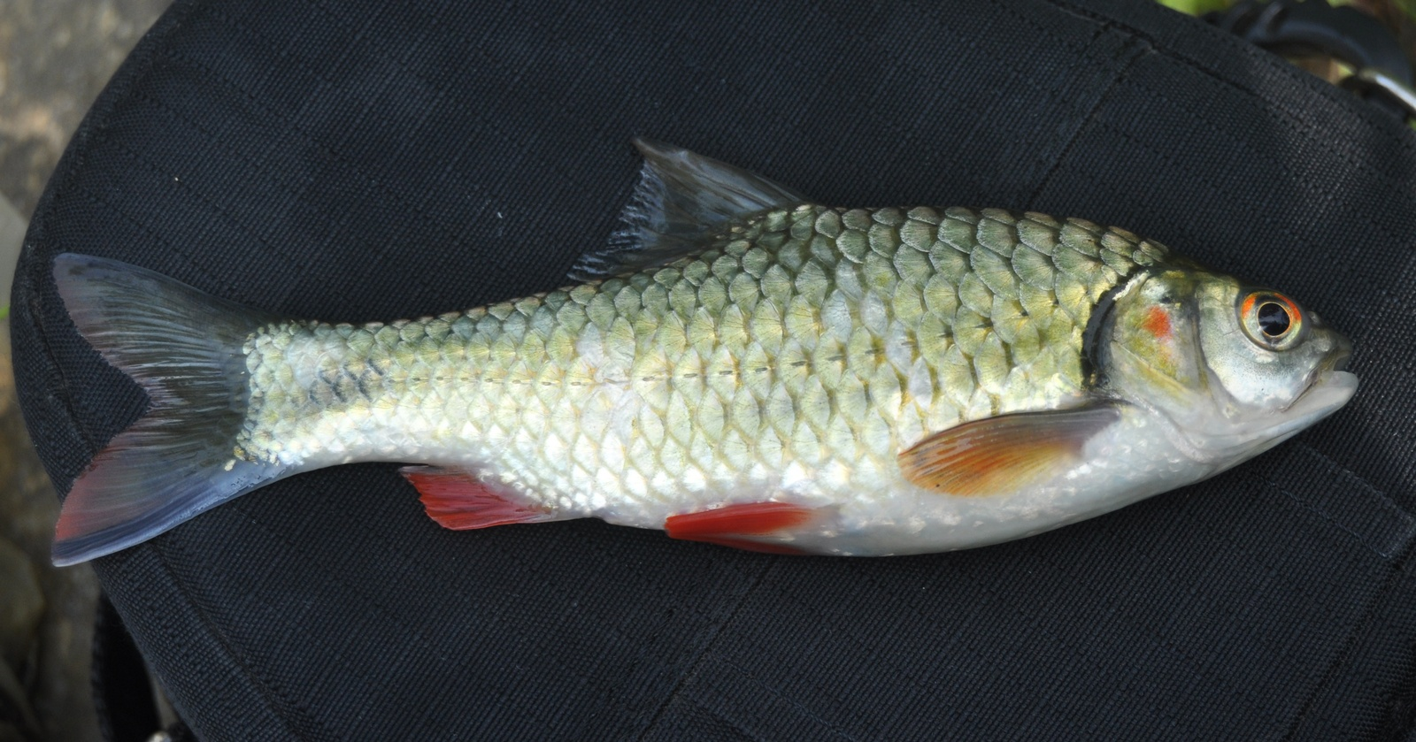 Javaen barb (Puntius orphoides), 132 mm SL; from Tasikmalaya, West Java, Indonesia. Right side.